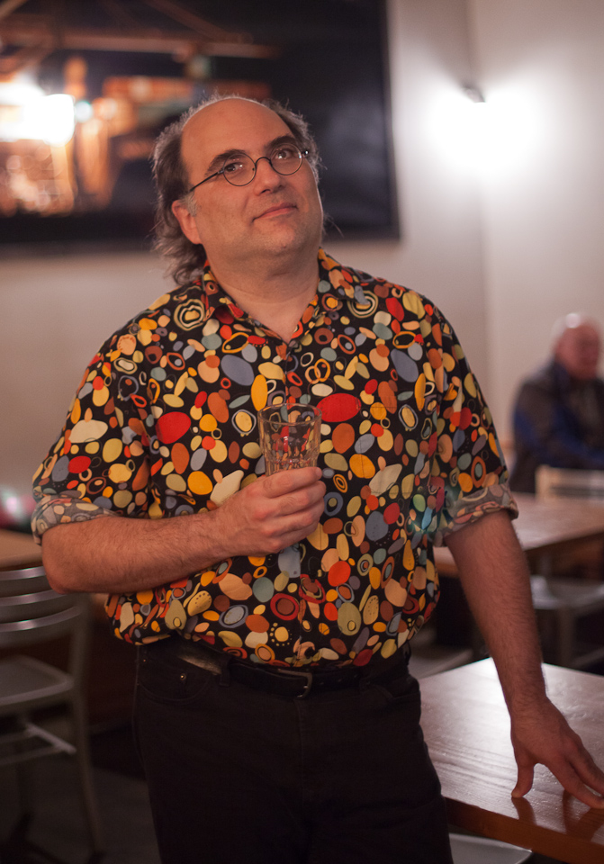 Josh Kornbluth at a reception following the opening of his monologue "Andy Warhol: Good For The Jews?", Coffee Bar, San Francisco